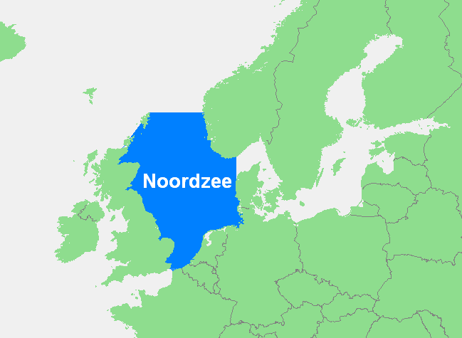 Locator map of the North Sea in the Atlantic Ocean, in northern Europe.